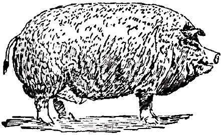 Drawing of a Poland China (breed) pig